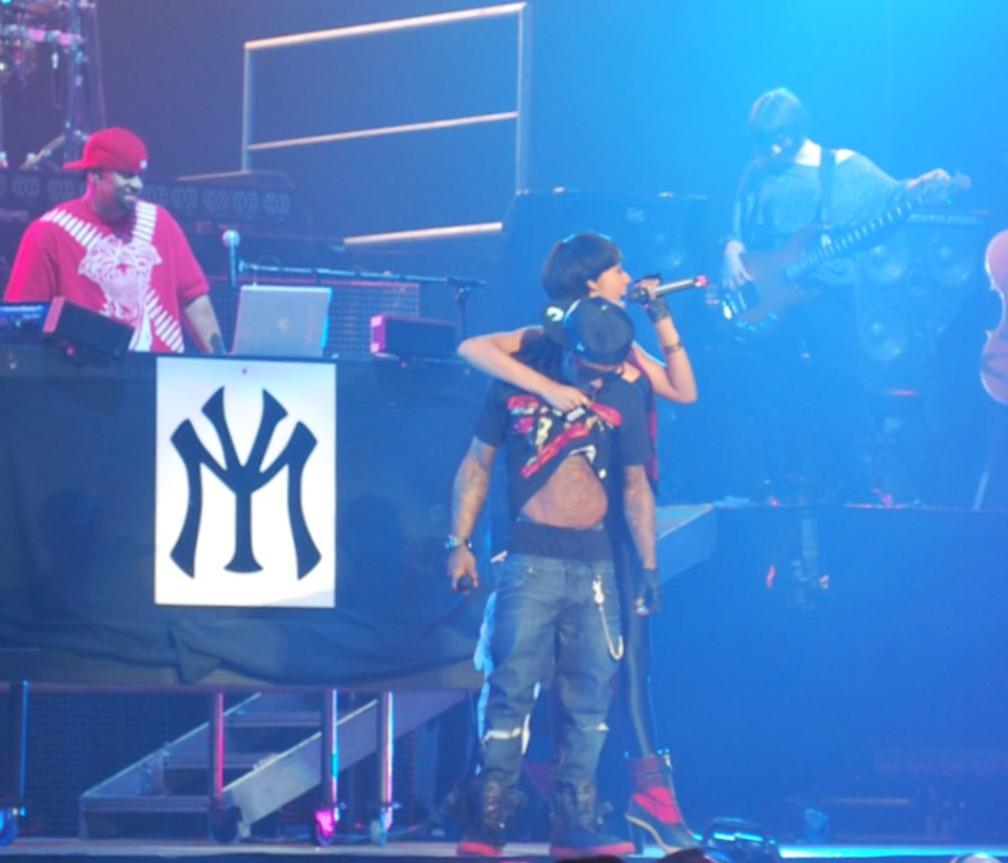 Keri Hilson and Lil Wayne performing at General Motors Place concert in Vancouver.